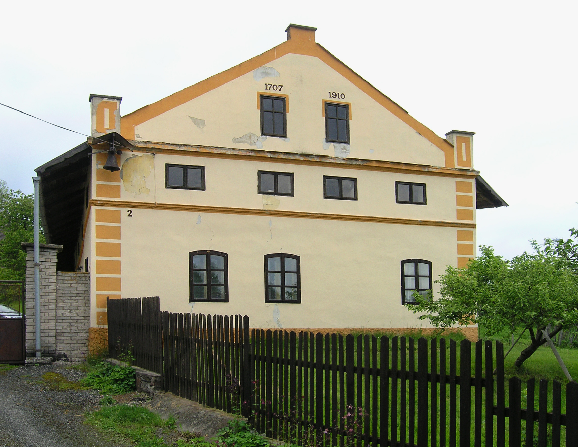 Proseč, part of Kámen village, Czech Republic